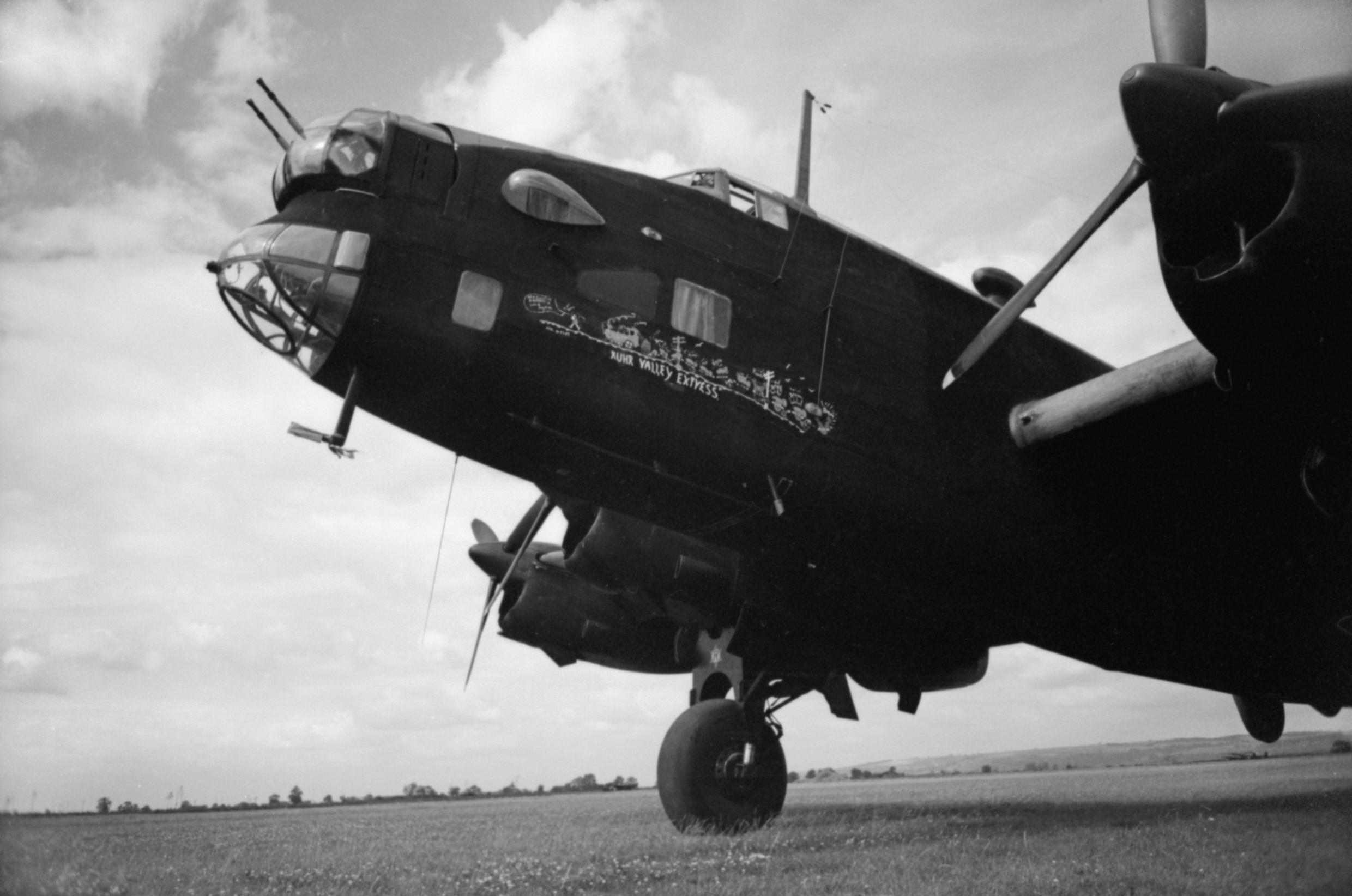 Royal Air Force Bomber Command, 1942-1945. The nose of Handley Page Halifax B Mark II, W7710 'LQ-R' "Ruhr Valley Express", of No. 405 Squadron RCAF, at Pocklington, Yorkshire. An extra truck was added to the nose insignia after each mission. W7710 crashed at Liehuus, Denmark, on the night of 1/2 October 1942 while returning from a raid on Flensburg, Germany